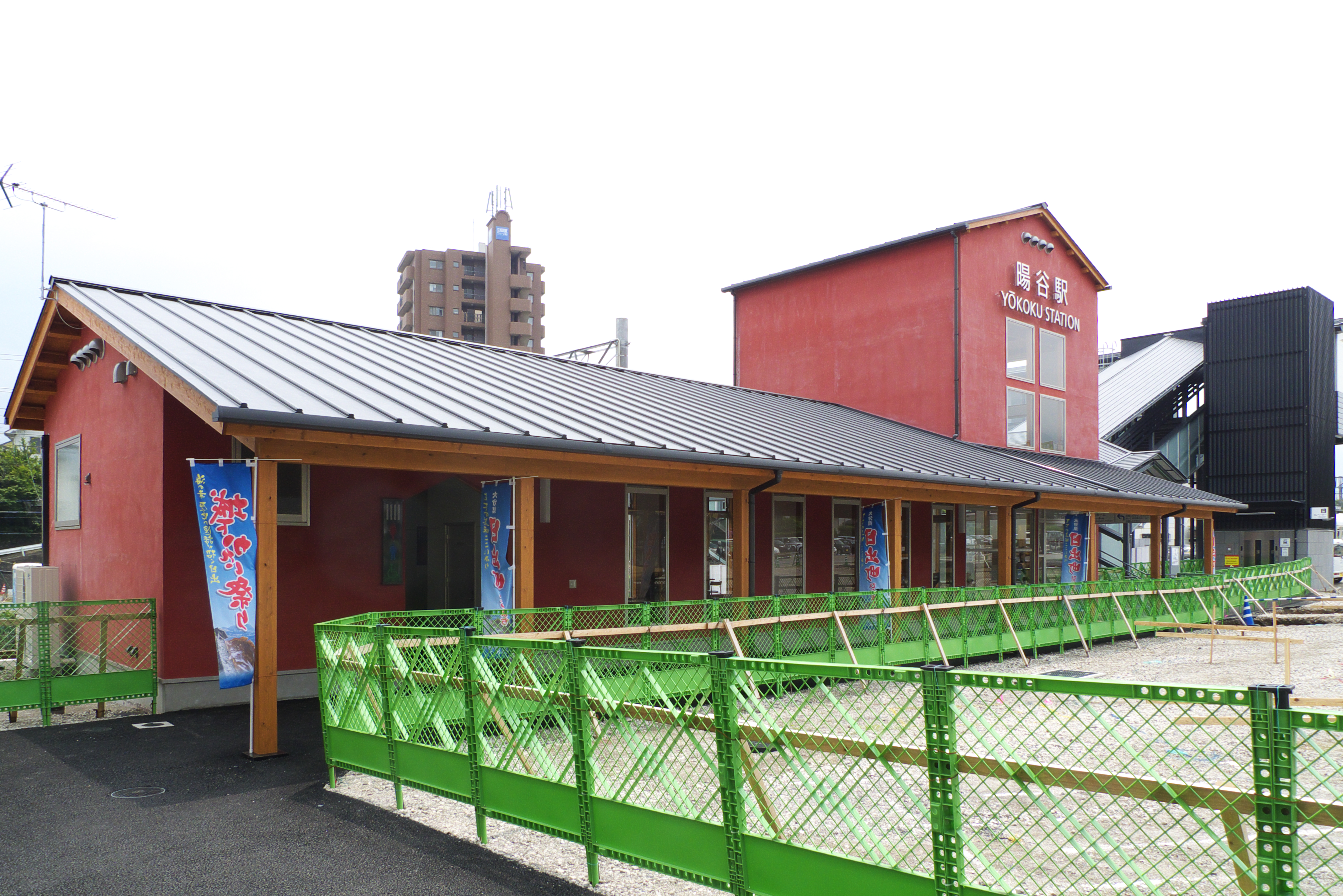 Yokoku Station on the Kyushu Railway Company (JR Kyushu) Nippo Main Line in Hiji Town, Oita Prefecture, Japan